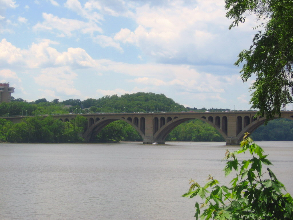 A bridge connecting Washington DC and Virginia across the Potomac River in Georgetown.